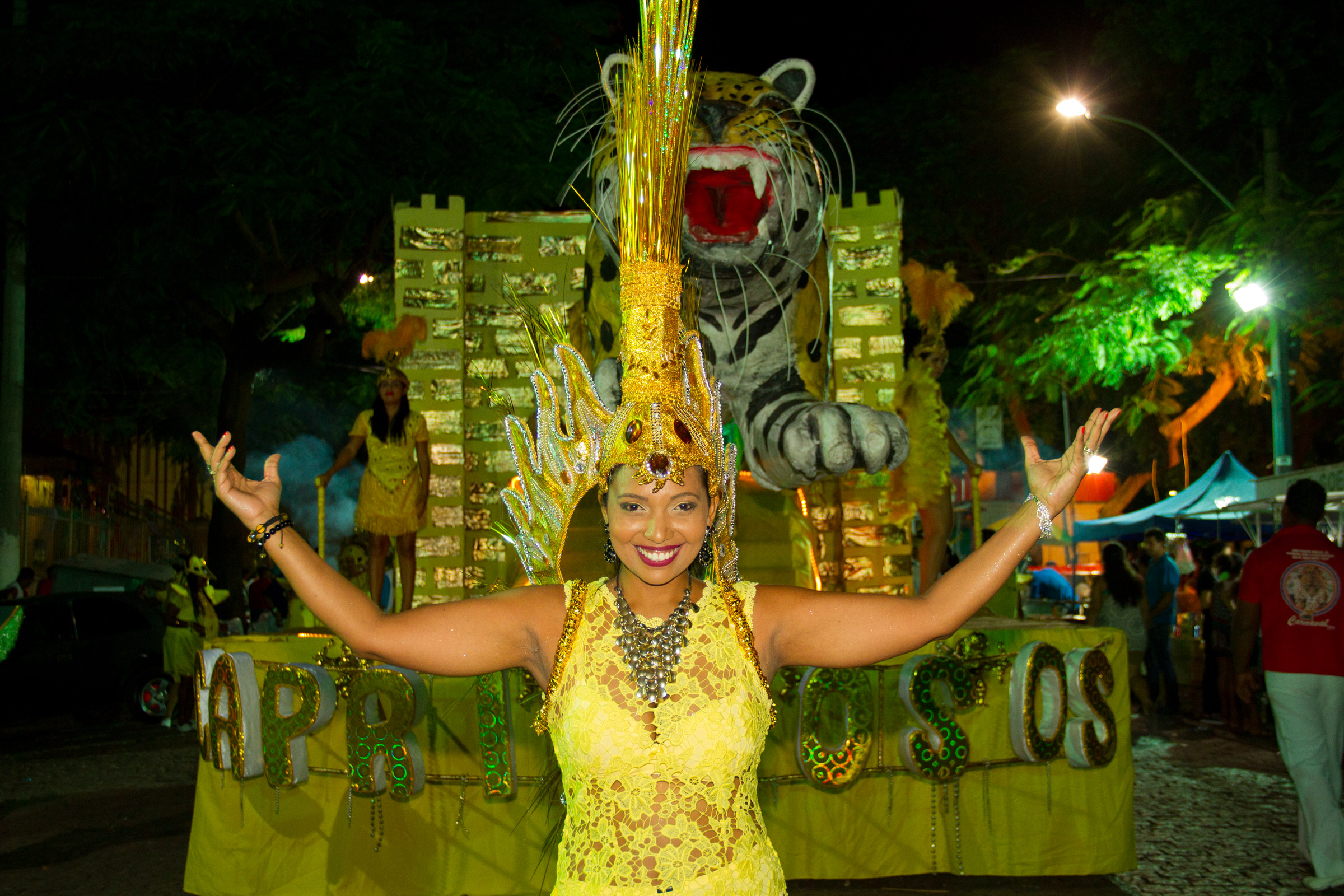 Dancer on the first night of Carnaval celebrations in Corumbá, Mato Grosso do Sul, Brazil. Escola Caprichoso.